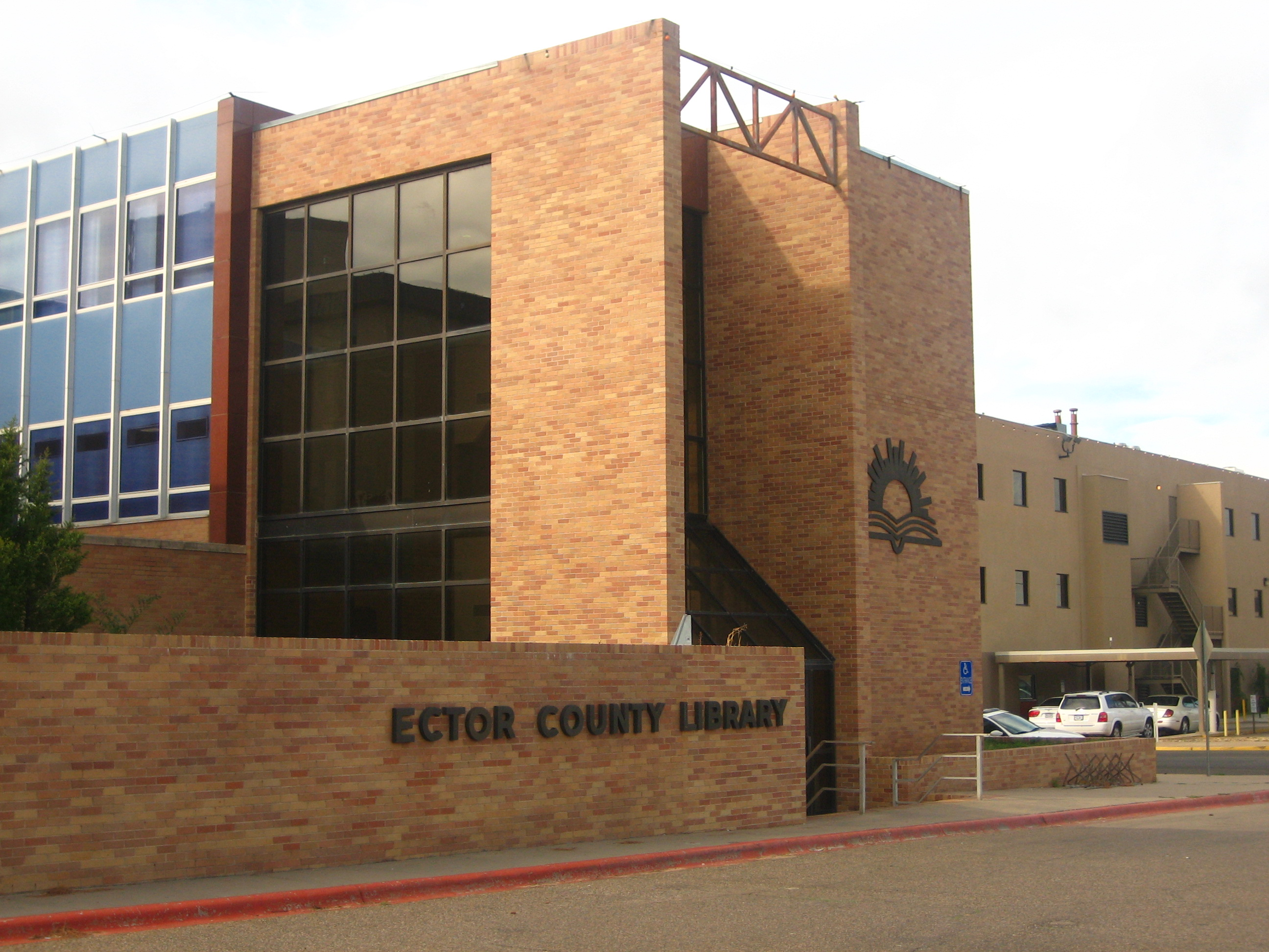 I took photo on July 10, 2009.